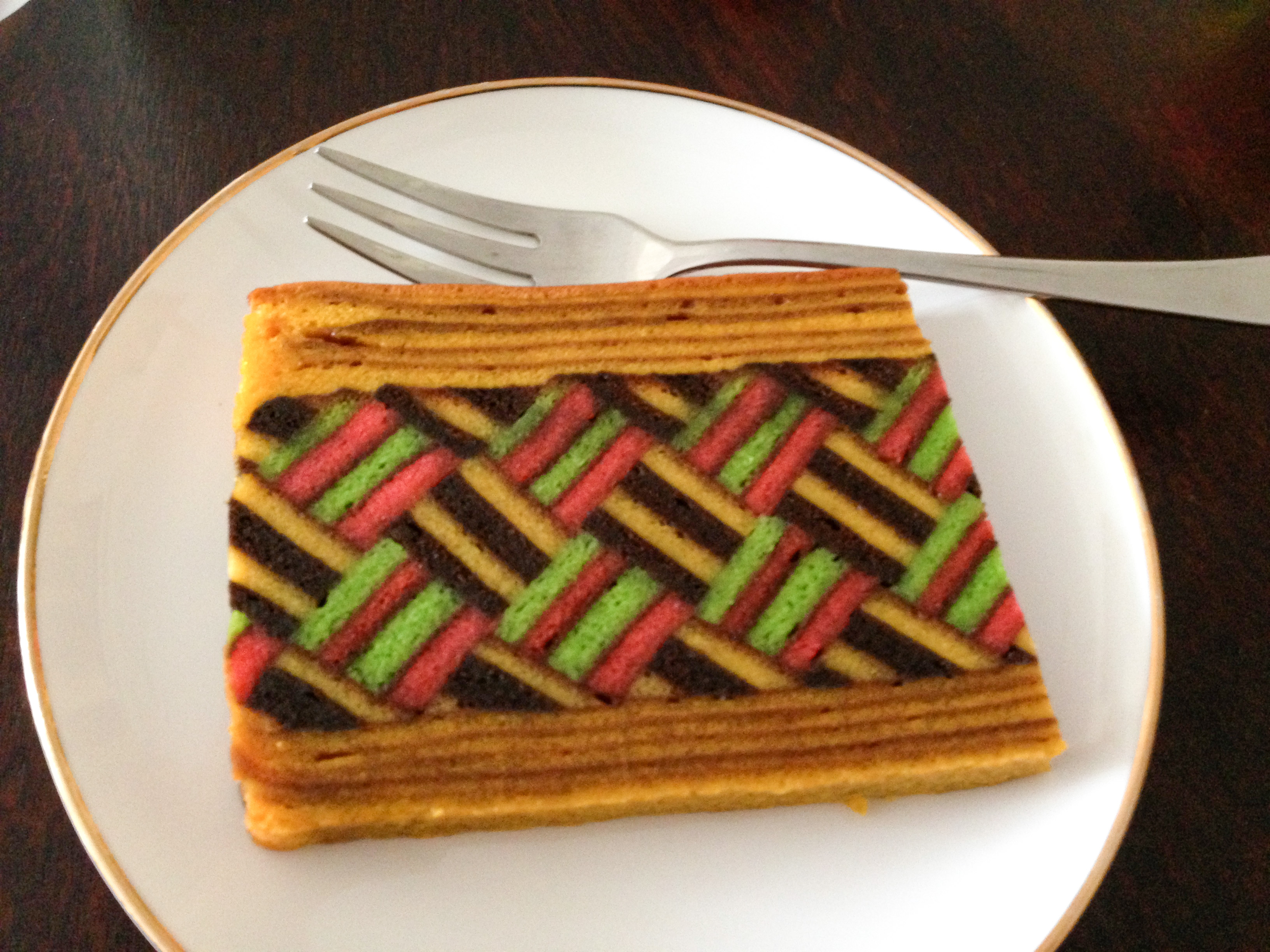 A fancy Indonesian kue lapis legit or spekkoek. Taken in Singapore